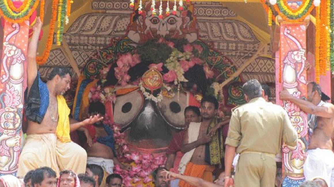 Lord Shri Jagannath on His Chariot Nandighosha